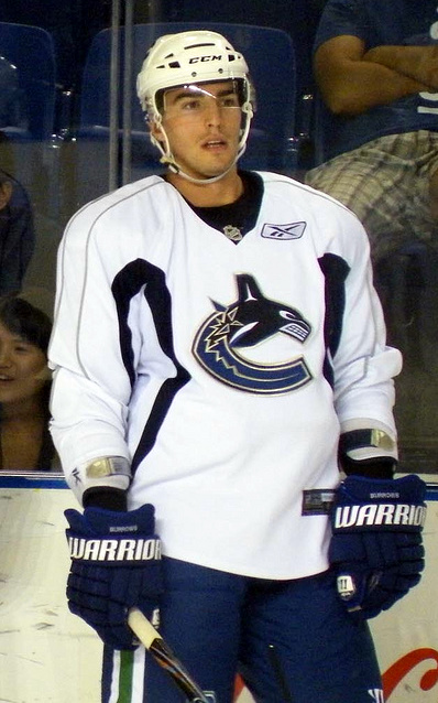 Vancouver Canucks forward Alexandre Burrows during training camp in 2009.